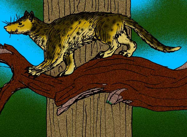 Reconstruction of the basal carnivore Miacis